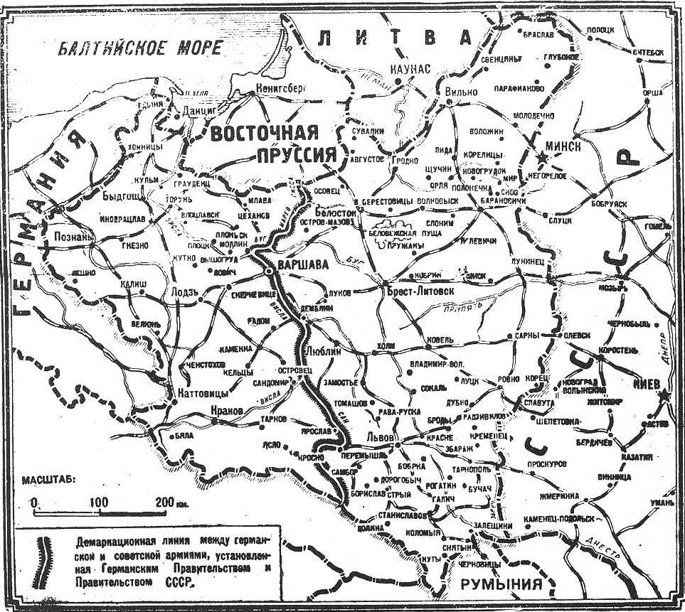 Map from the daily Izvestia issue from September 18, 1939 showing the new German-Poland border.